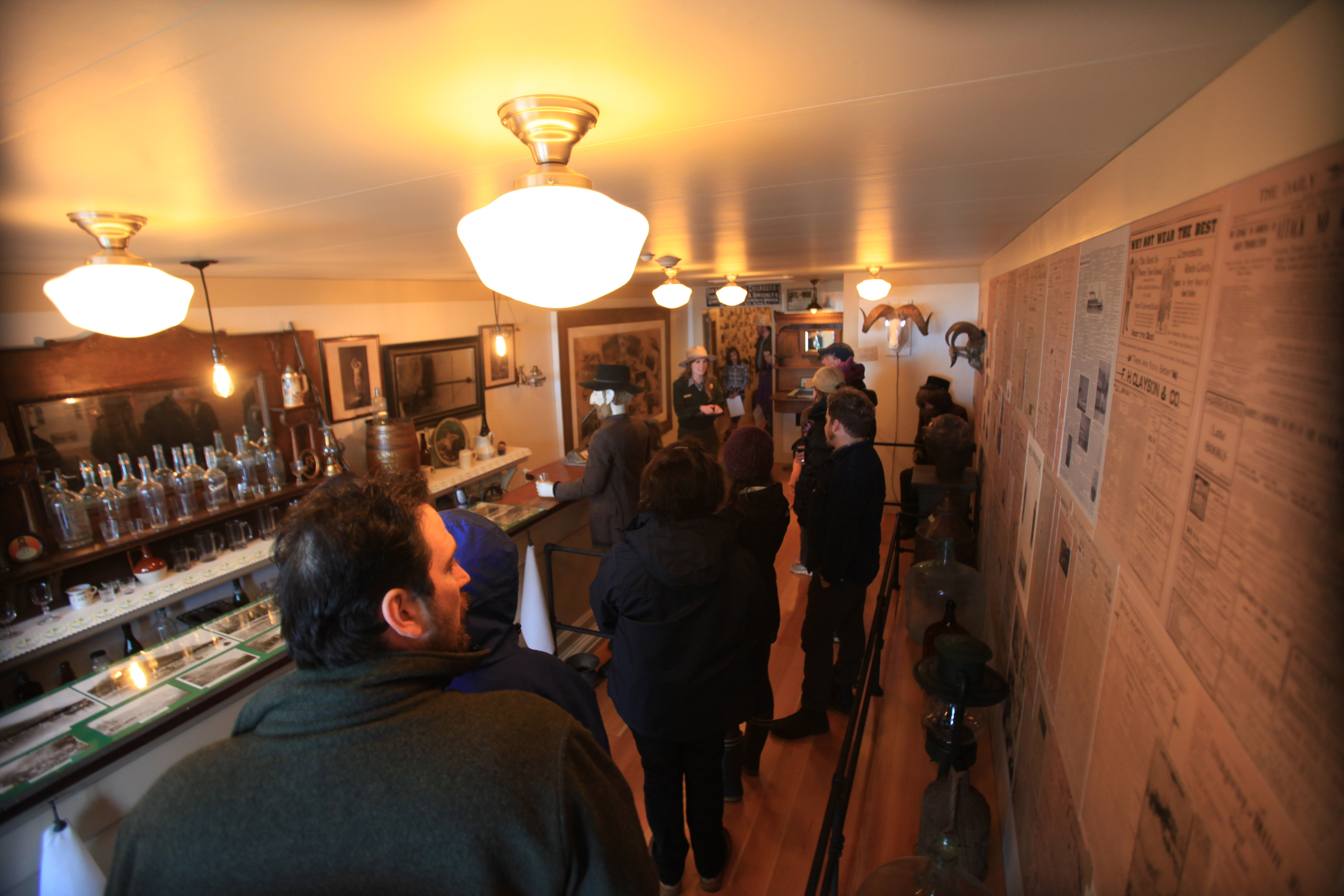 park ranger takes visitors on tour of recently refurbished Jeff. Smith's Parlor Museum at Klondike Gold Rush National Historical Park in Skagway Alaska in April 2016